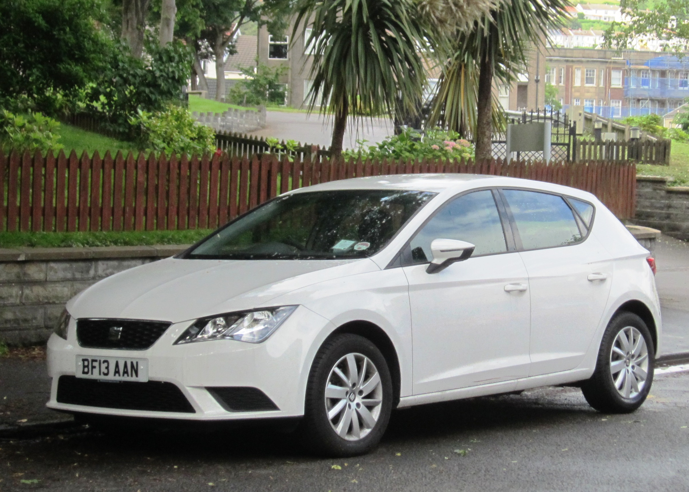 Seat Leon (2013)